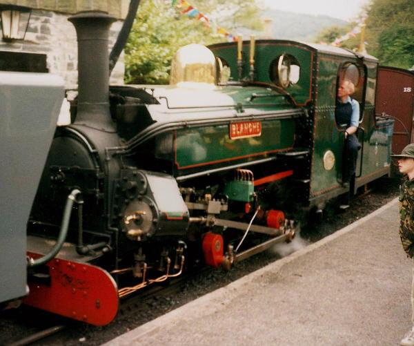 Locomotive Blanche at Tan-y-Bwlch on the Ffestiniog Railway, 1995